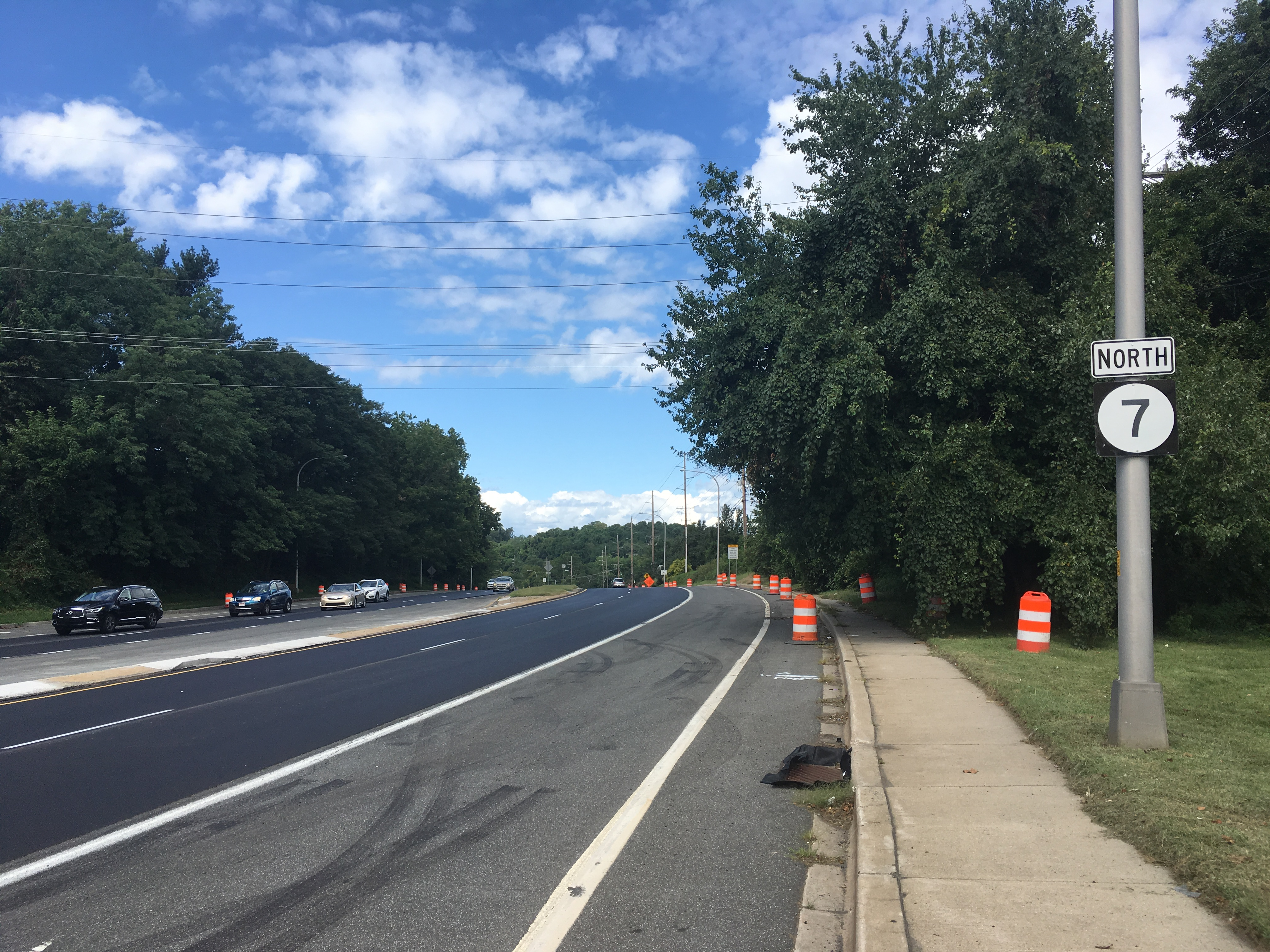 Northbound Delaware Route 7 (Limestone Road) past the intersection with Milltown Road in Milltown, Delaware